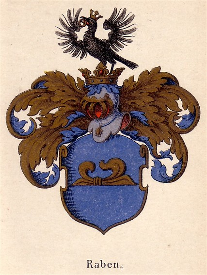 Coat of arms of the Raben family